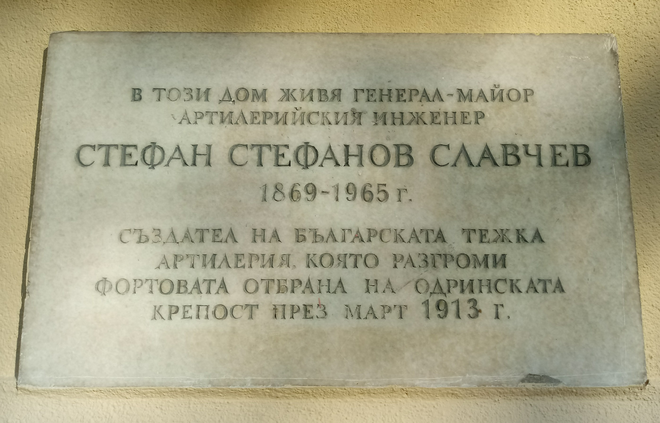 Stefan Slavchev memorial plaque, Oborishte Str., Sofia